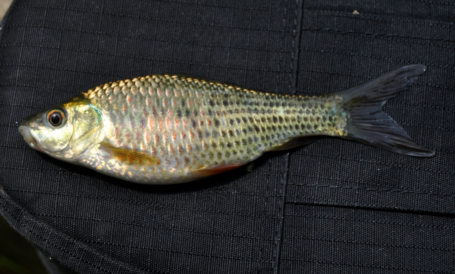 Hard-lipped Barb (Osteochilus hasseltii, syn. O. vittatus), 125 mm SL, From Tasikmalaya, West Java, Indonesia.